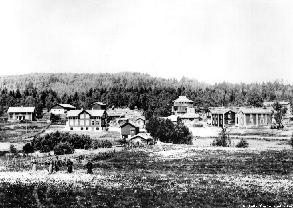 Greksåsar village, Nora, Sweden, around 1900